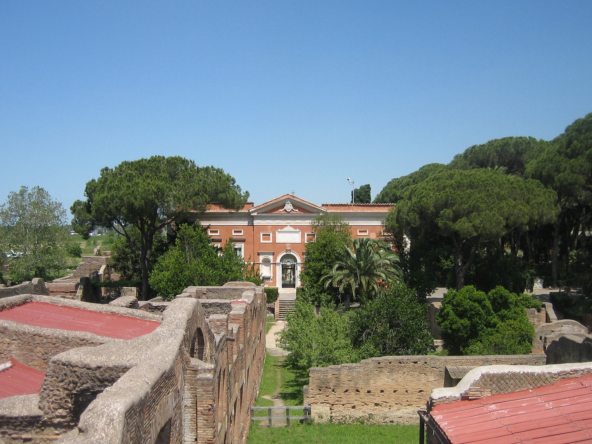 The museum in the excavation area of Ostia Antica in Italy.